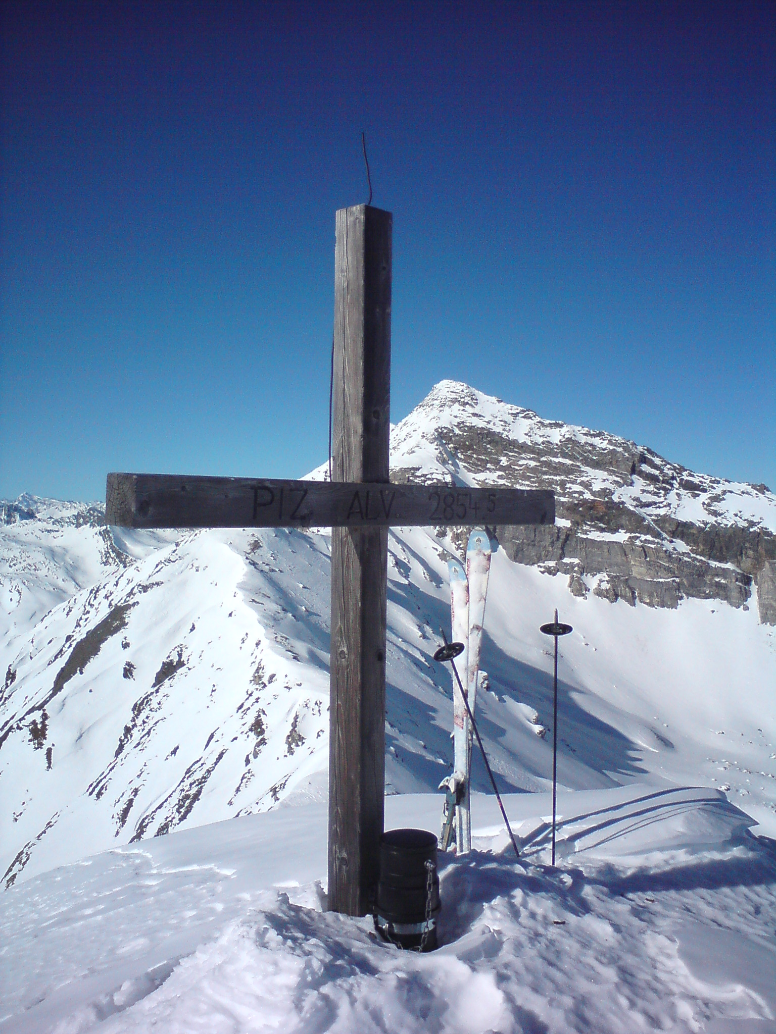 Summit cross on top of Piz Alv, Riom-Parsonz, Ferrera, Grison, Switzerland